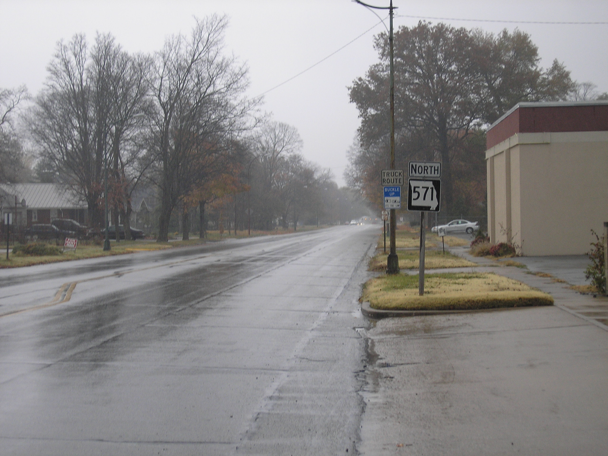 Missouri 571 in Carthage, Missouri. Self taken photo.